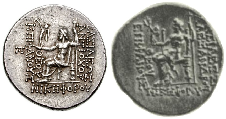 For Antiochus IV: 782043. Sold For $1500 SELEUKID KINGS of SYRIA. Antiochos IV Epiphanes. 175-164 BC. AR Tetradrachm (29mm, 16.89 g, 12h). Antioch mint. Diademed head right / BASILEWS ANTIOCOU QEOU EPIFANOUS NIKHFOROU, Zeus Nikephoros seated left; monogram to outer left. SNG Spaer -; cf. Le Rider, Antioche 449-457 (obv. die A44); Houghton -. Superb EF, lightly toned. From the Semon Lipcer Collection. For Alexander II: zabinas gold stater sc 2215 sma 358